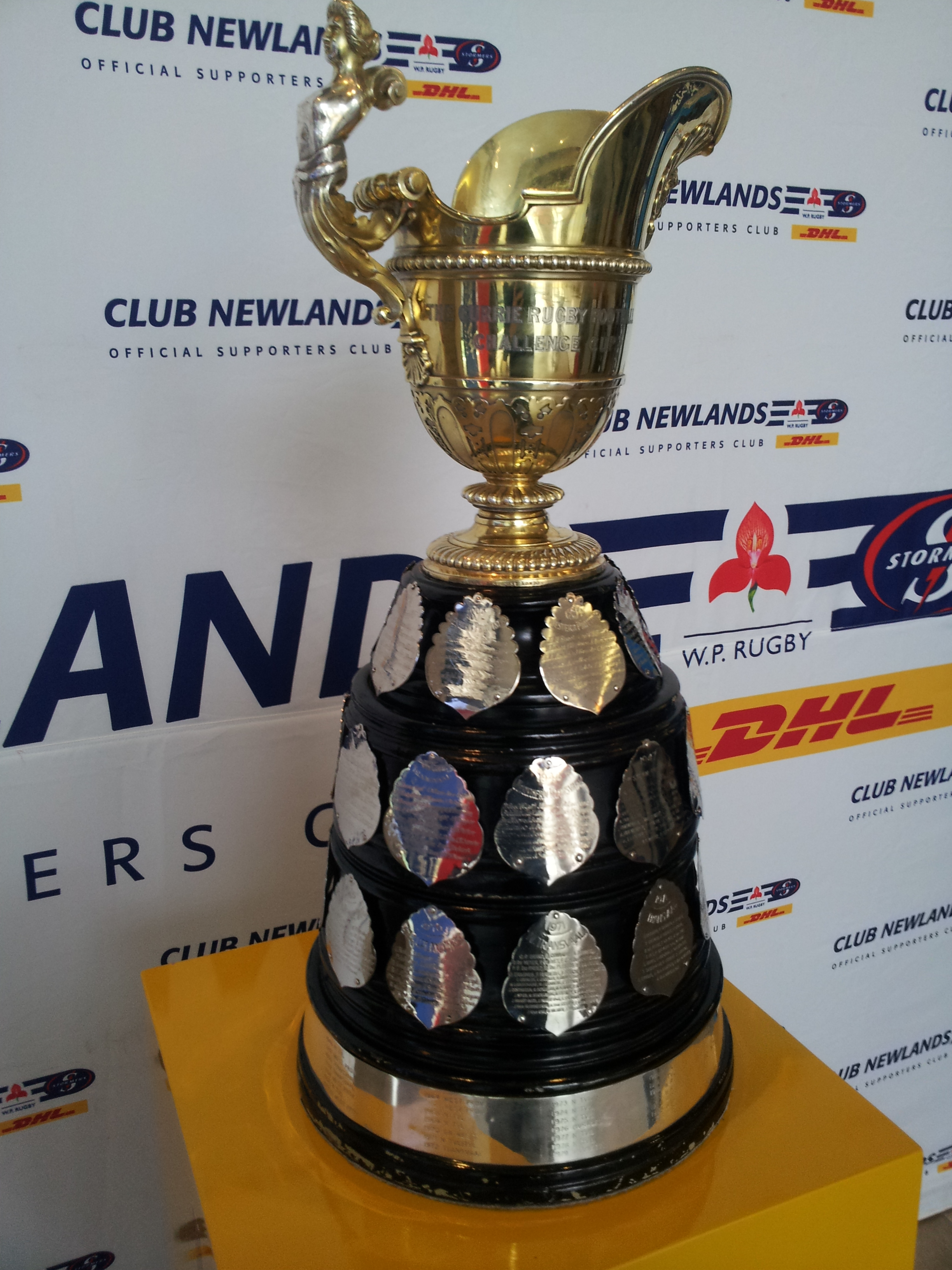 The Currie Cup, on display at Virgin Active Century City.